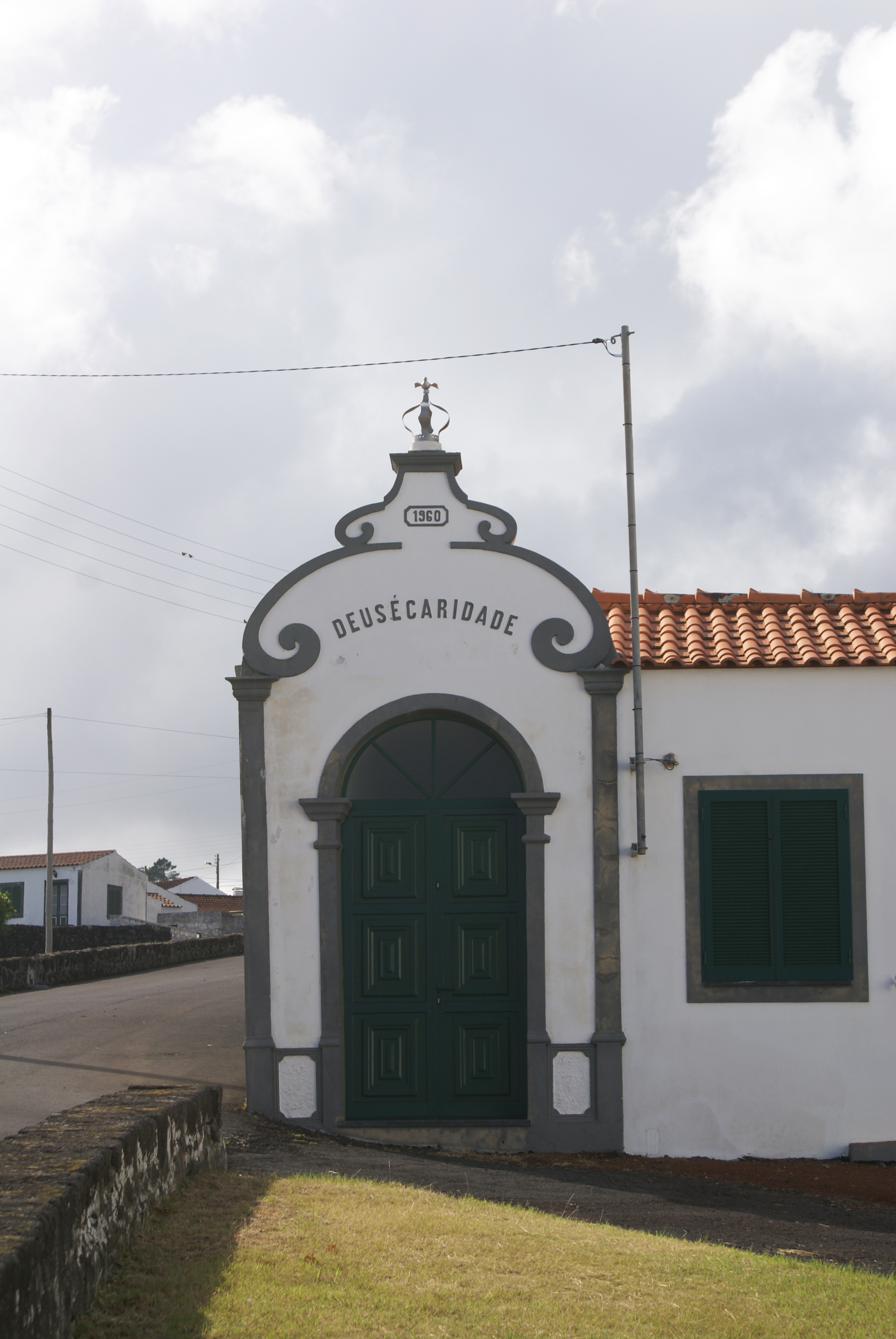 Império do Espírito Santo de São Caetano, concelho da Madalena do Pico, ilha do Pico, Açores, Portugal